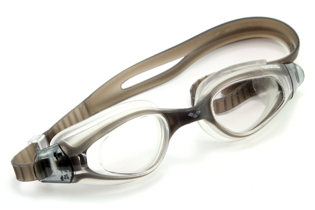 Arena swim goggles